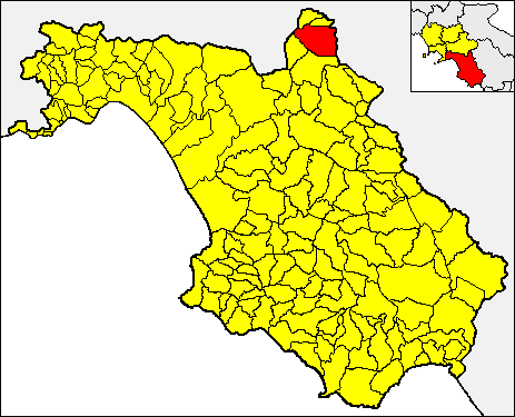 Locator map of the municipality of Laviano (red) within the Province of Salerno